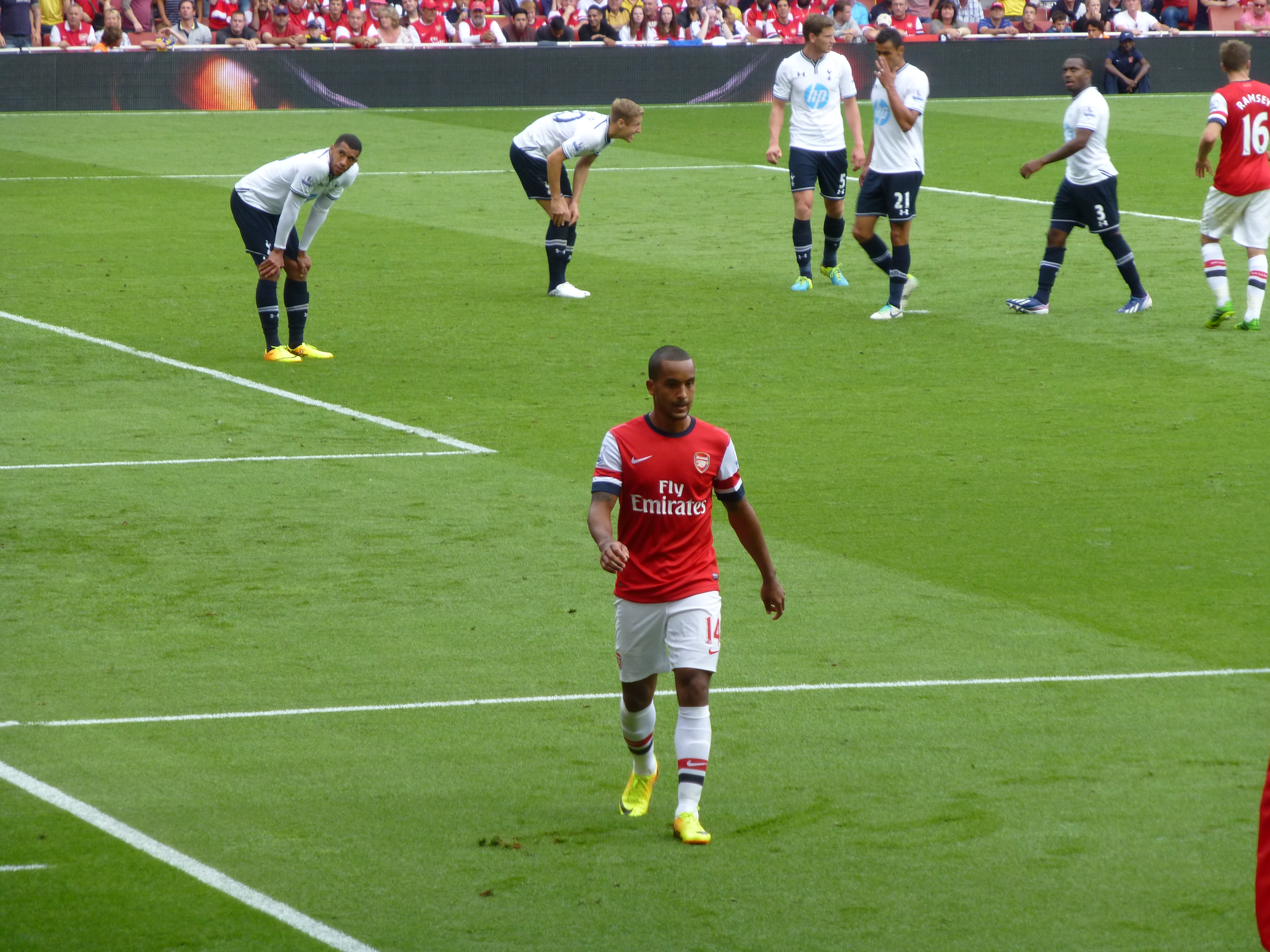 Theo Walcott approaching the corner flag during a game with Arsenal against North London rivals Tottenham.